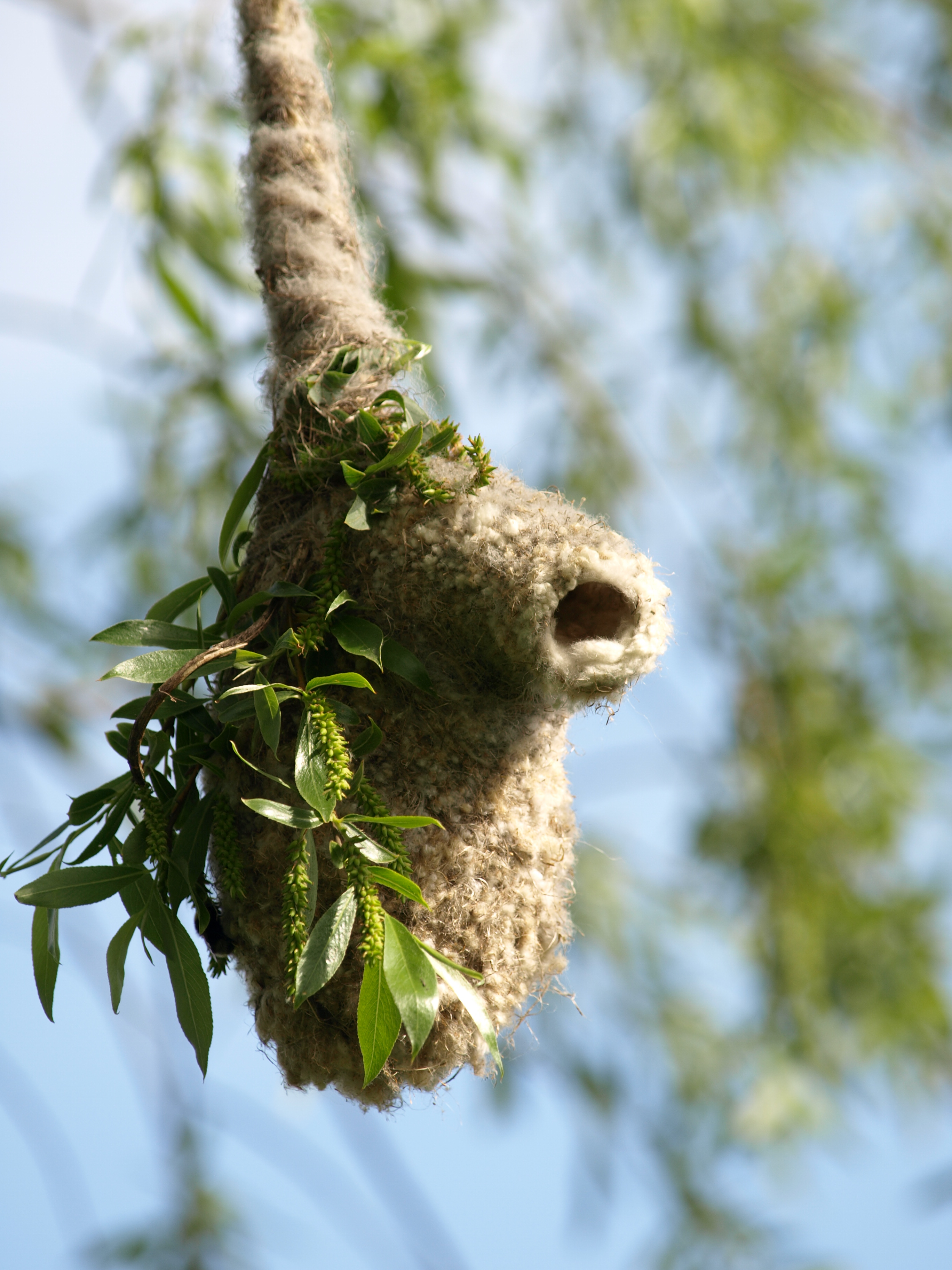 Nest of Remiz pendulinis Kwidzyn, Poland